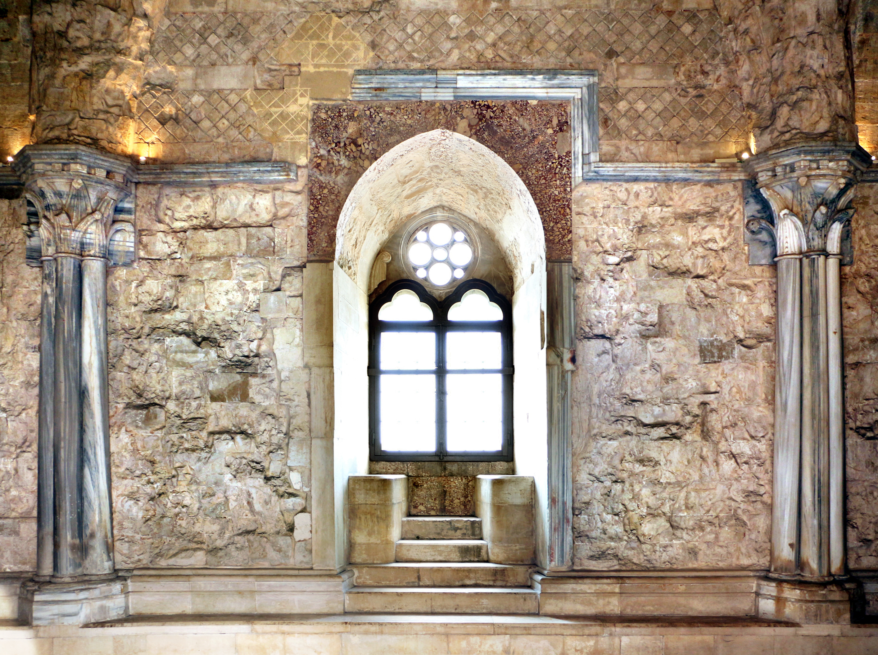 Interior of the Castel del Monte